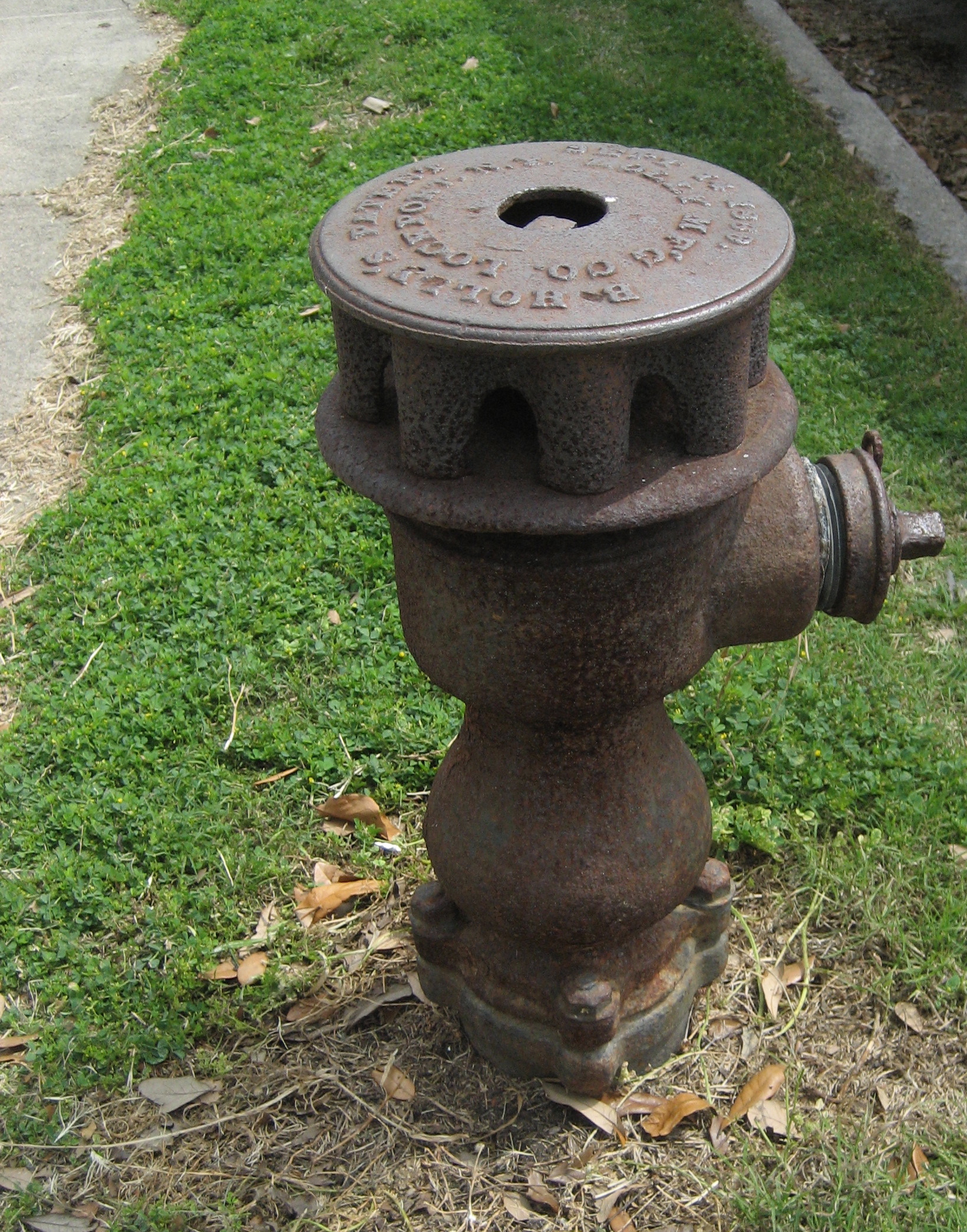 New Orleans: 1869 patent model Birdsill Holly fire hydrant still in place streetside. Photo by Infrogmation of New Orleans, March 2007. Related images of same hydrant: Image:1869BirdsillHollyHydrantBayouStJohn.jpg, Image:1869BirdsillHollyHydrantFront.jpg Image:1869BirdsillHollyHydrantTop.jpg